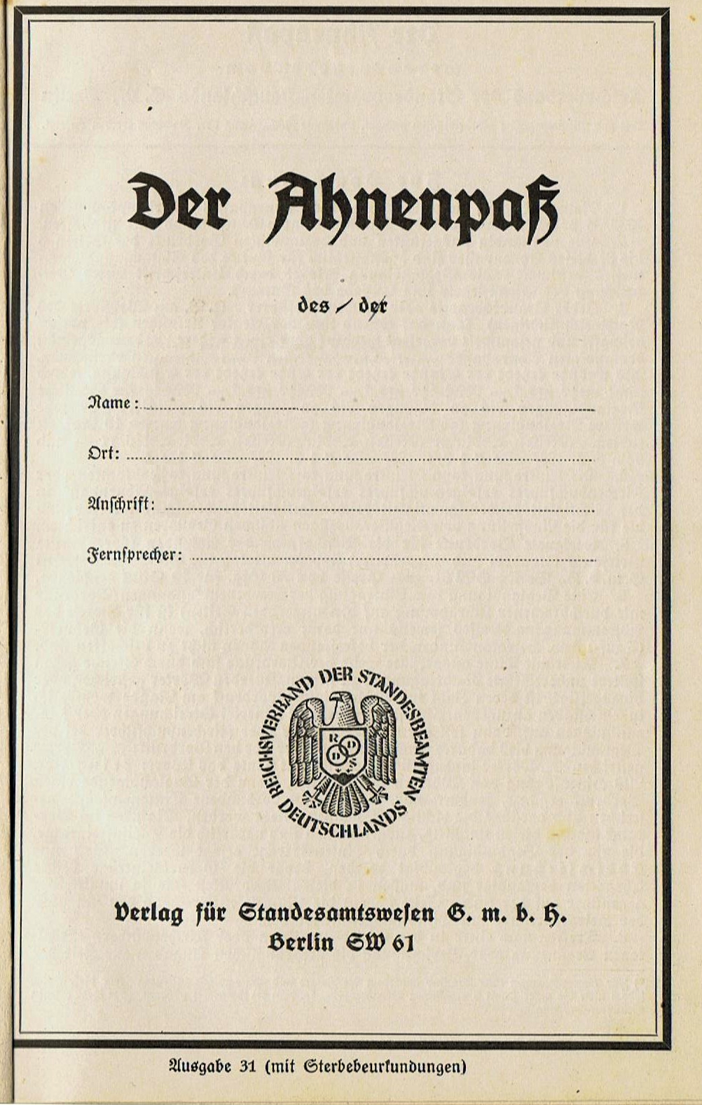 excerpts from an Aryan certificate by the "Reichsverband der Standesbeamten Deutschlands (RDSD)" Union of Registrars of the Reich in Germany, 31st Edition (with death certificates) by Verlag für Standesamtswesen G.m.b.H. Berlin SW 61